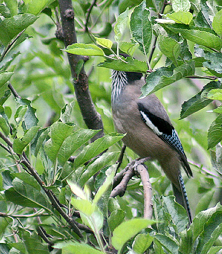 Black-headed Jay Garrulus lanceolatus at 8000 ft. in KulluDistrict of Himachal Pradesh, India.